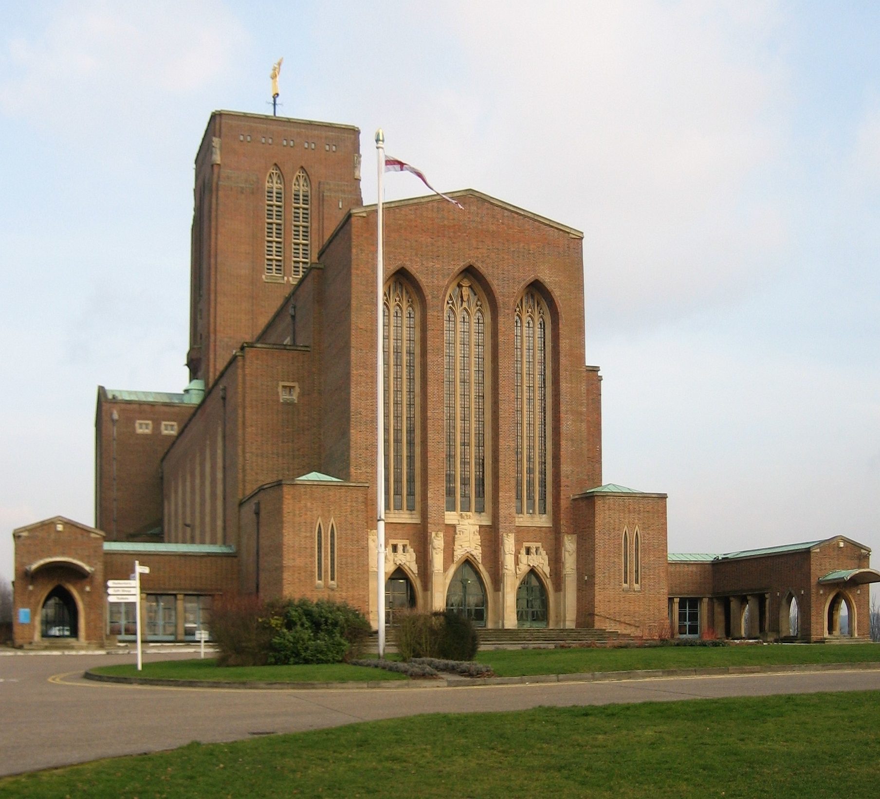 Photograph taken (Feb 2006) and uploaded by User:Purple. I release this photograph to the public domain.